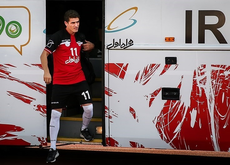 Iran national football team training